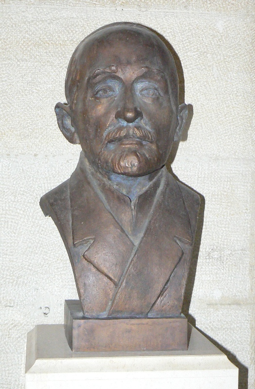 Bust-monument of Hermengild (Hermann) Skorpil in Varna Archeological Museum